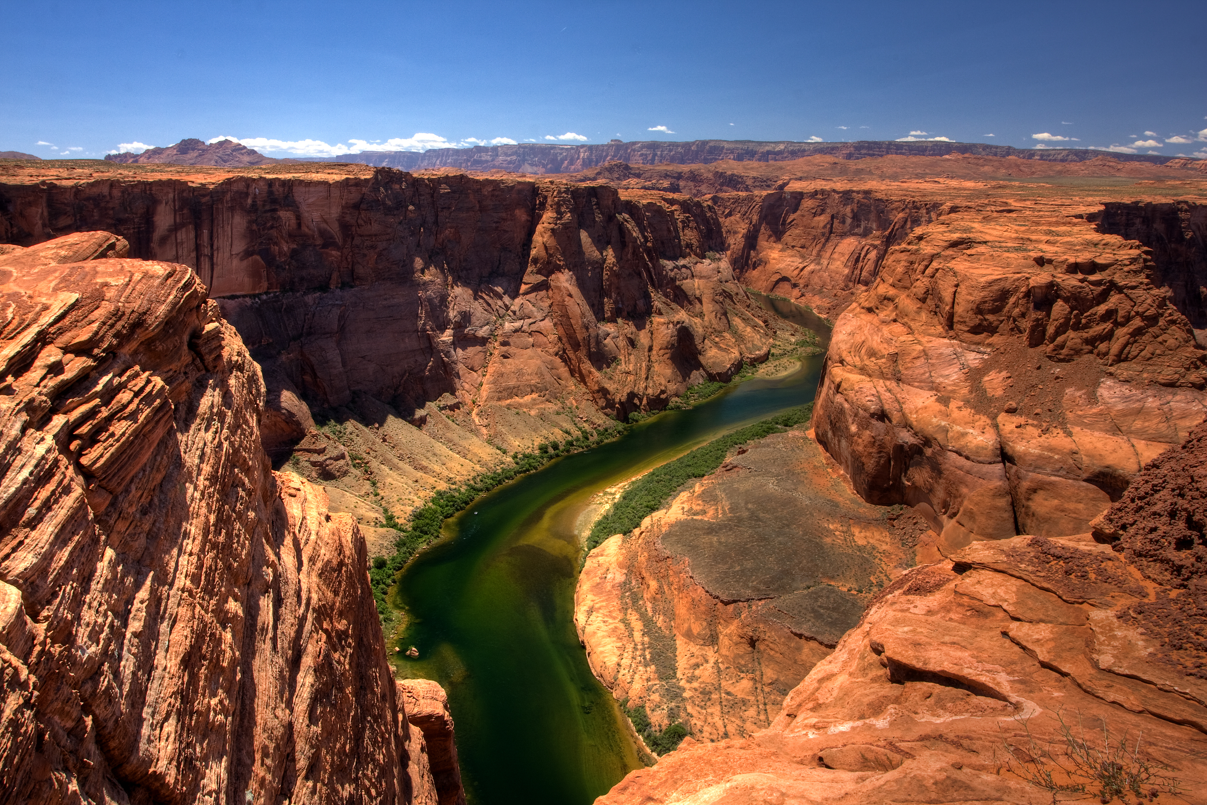 Horseshoe Bend Arizona. Horseshoe Bend is the name for a horseshoe-shaped meander of the Colorado River located near the town of Page, Arizona, in the United States. It is located slightly downstream from the Glen Canyon Dam.